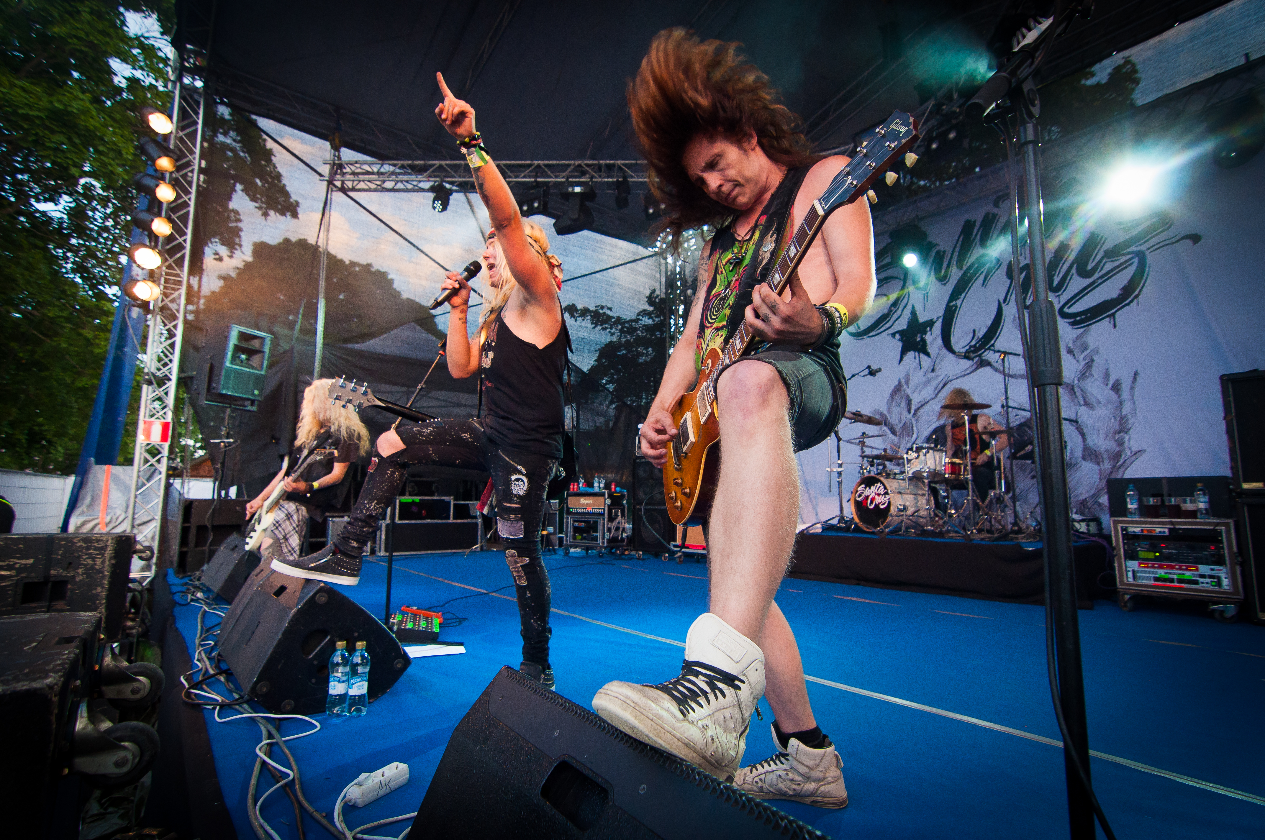 Finnish hard rock band Santa Cruz performing at the 2014 Rakuuna Rock festival in Lappeenranta, Finland.